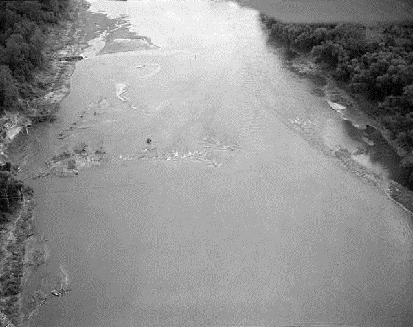 Aerial view of former Bailey's Dam location, facing south.